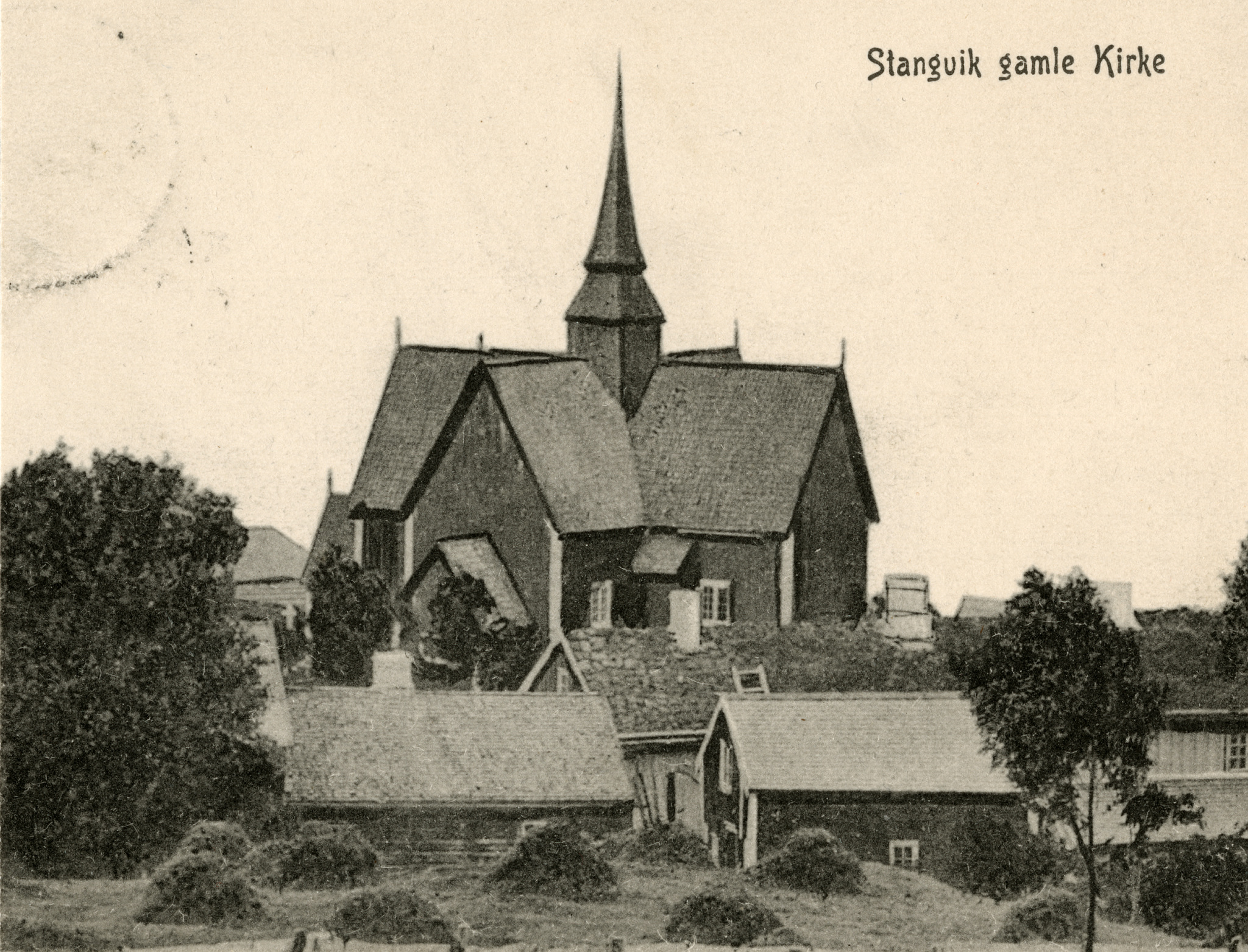 Stangviks tidligere kirke. Kirken ble revet i 1896. Fra Kulturminnebilder.no.